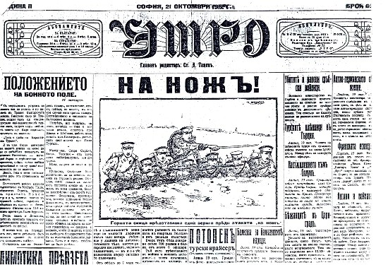 Cover page of the newspaper "Utro" October 21, 1912